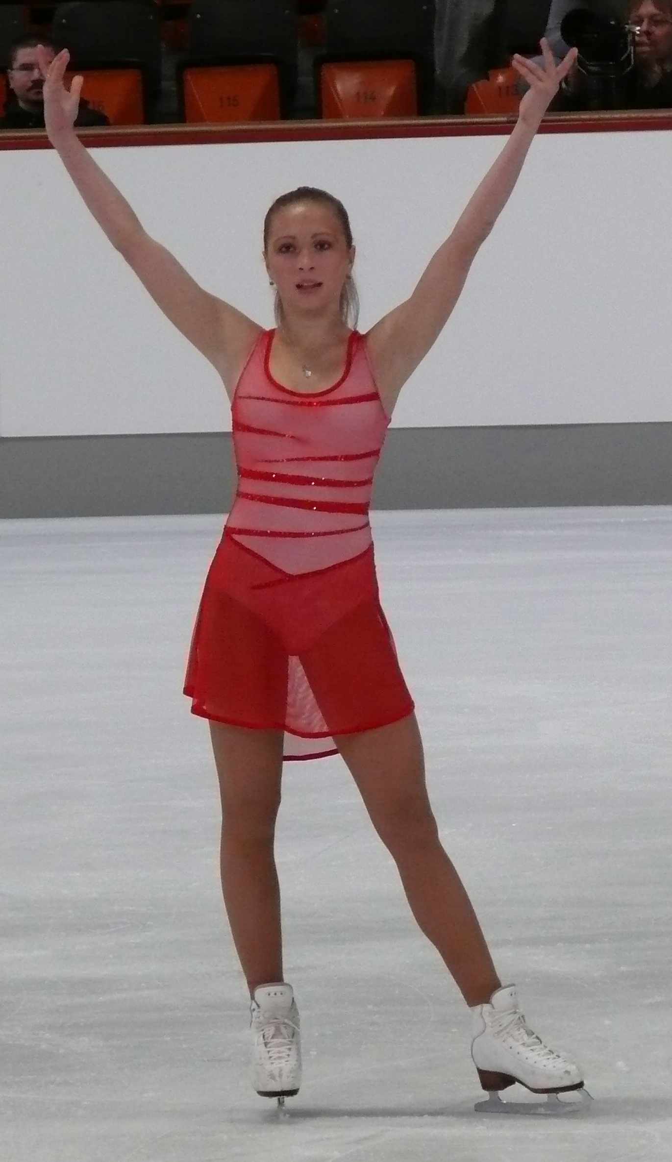 Polina Shepelen (RUS) at her free program at the Nebelhorn Trophy 2012 in Oberstdorf/Germany